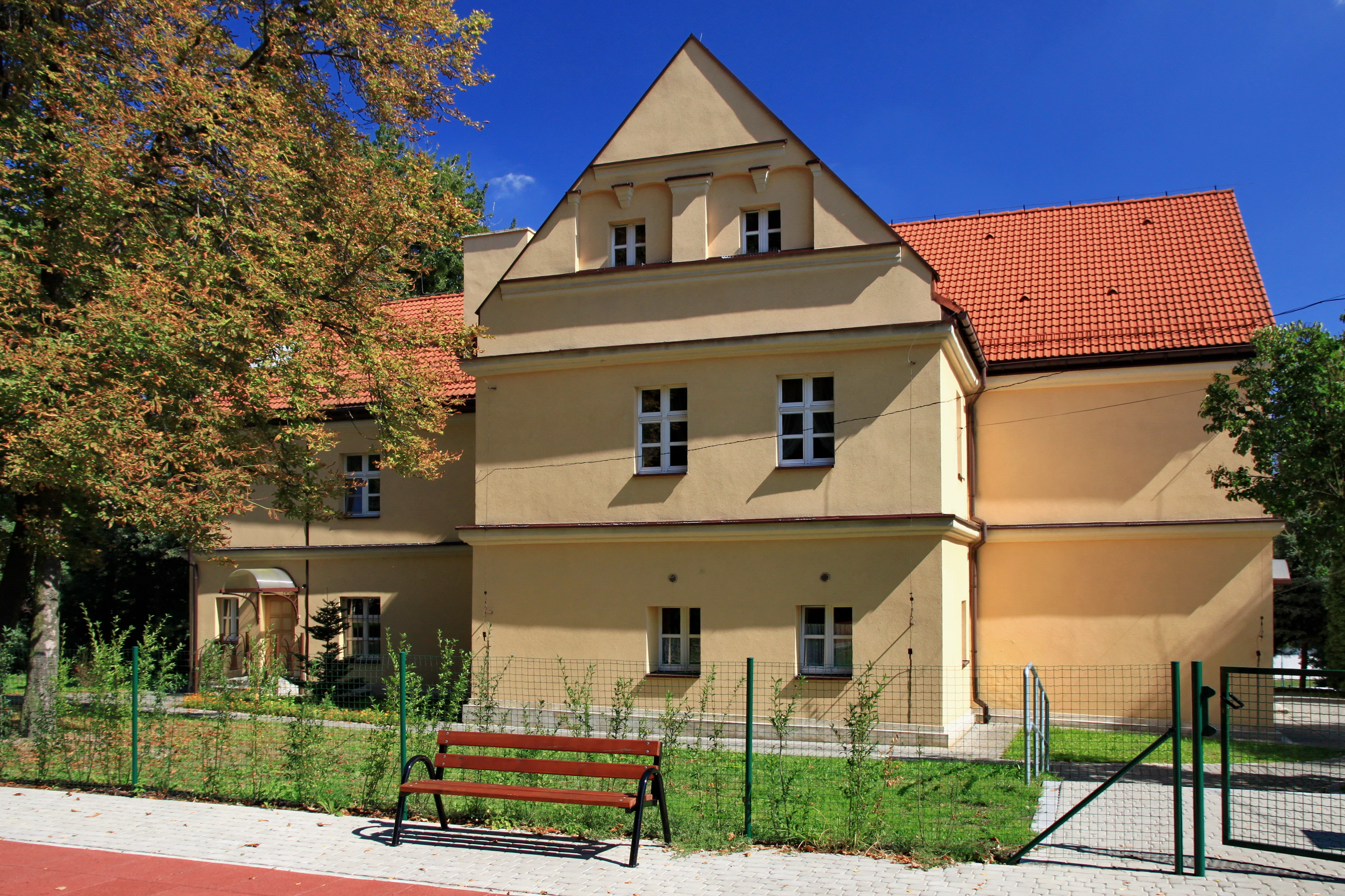 Jastrzębie-Zdrój, fortified manor house, build in 1636, 1958